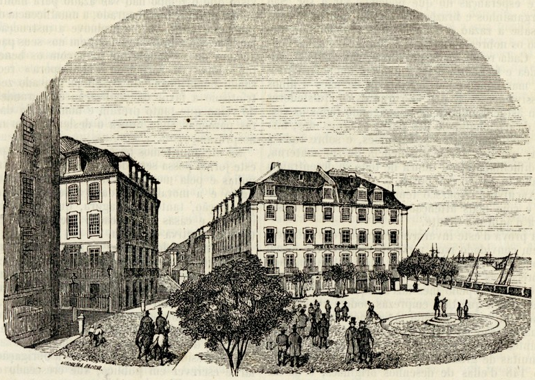 The Praça dos Remolares (Square of the Oar Makers), currently the Praça Duque da Terceira (Duke of Terceira Square), as it appeared in 1860.